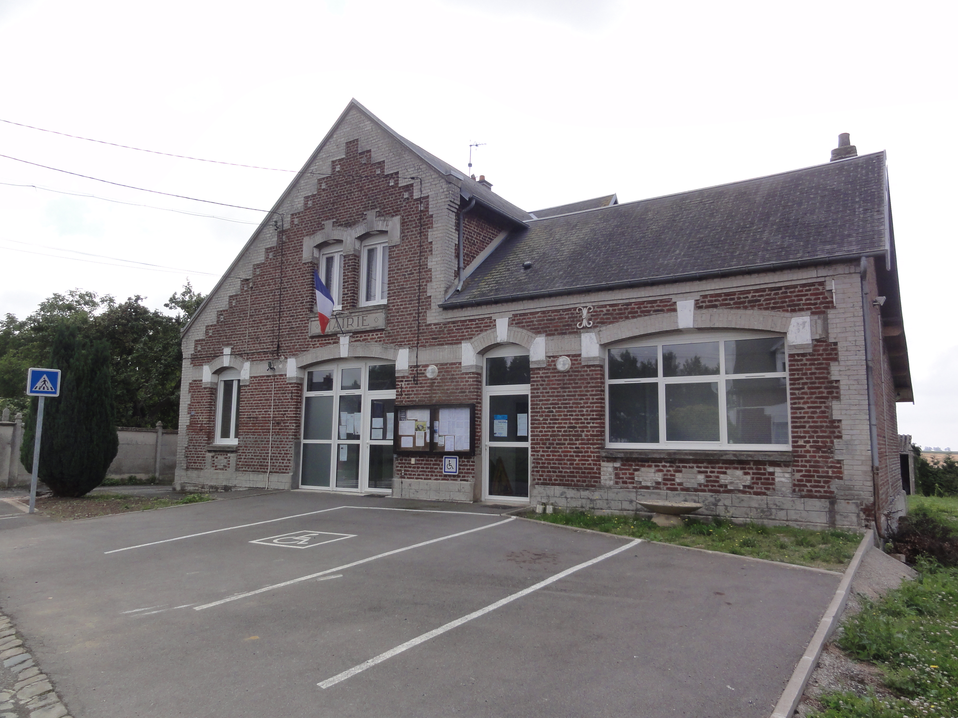 Germaine (Aisne) mairie